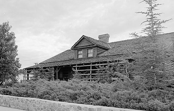 The first Arizona Territory capitol building and Governor's Mansion — in Prescott, Arizona. Front—east facade view, built in 1864. Now part of the Sharlot Hall Museum open air museum complex (opened 1928). Image courtesy of Historic American Buildings Survey—HABS.